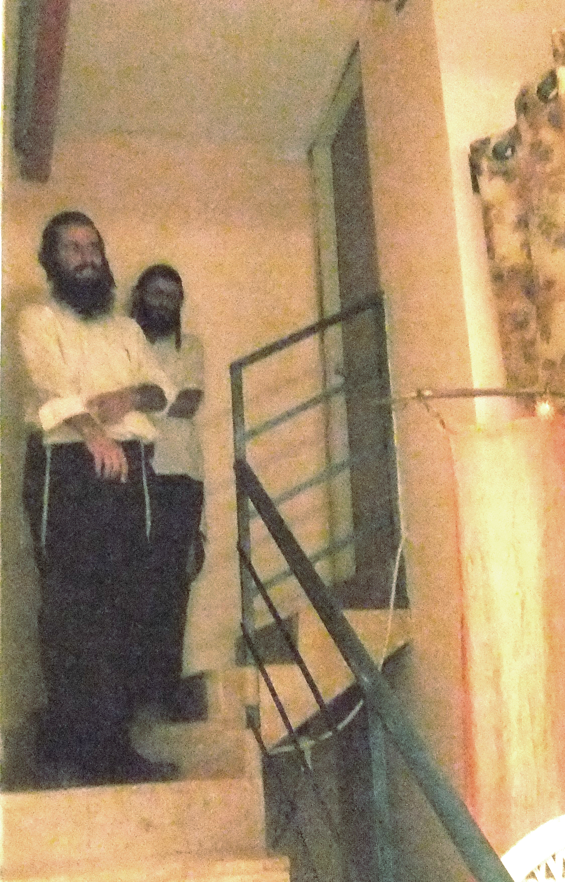 The two witnesses outside the Cheder Yihud where the married couple remain together alone after a Ashkenazic Jewish marriage ceremony